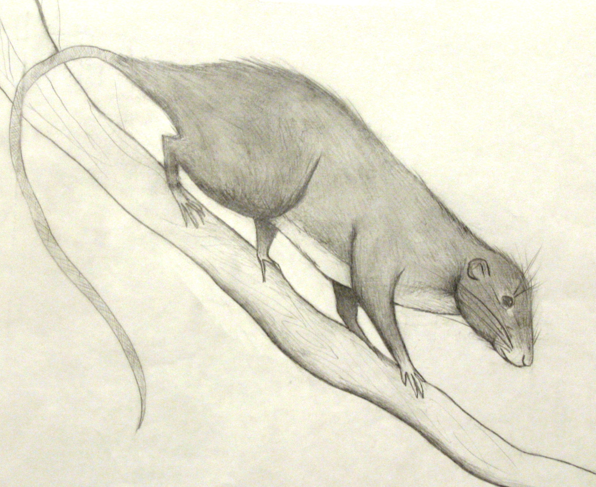 Drawing of Amazon bamboo rat.